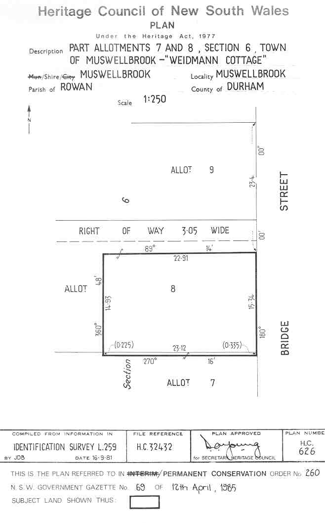 Weidmann Cottage: PCO Plan Number 260